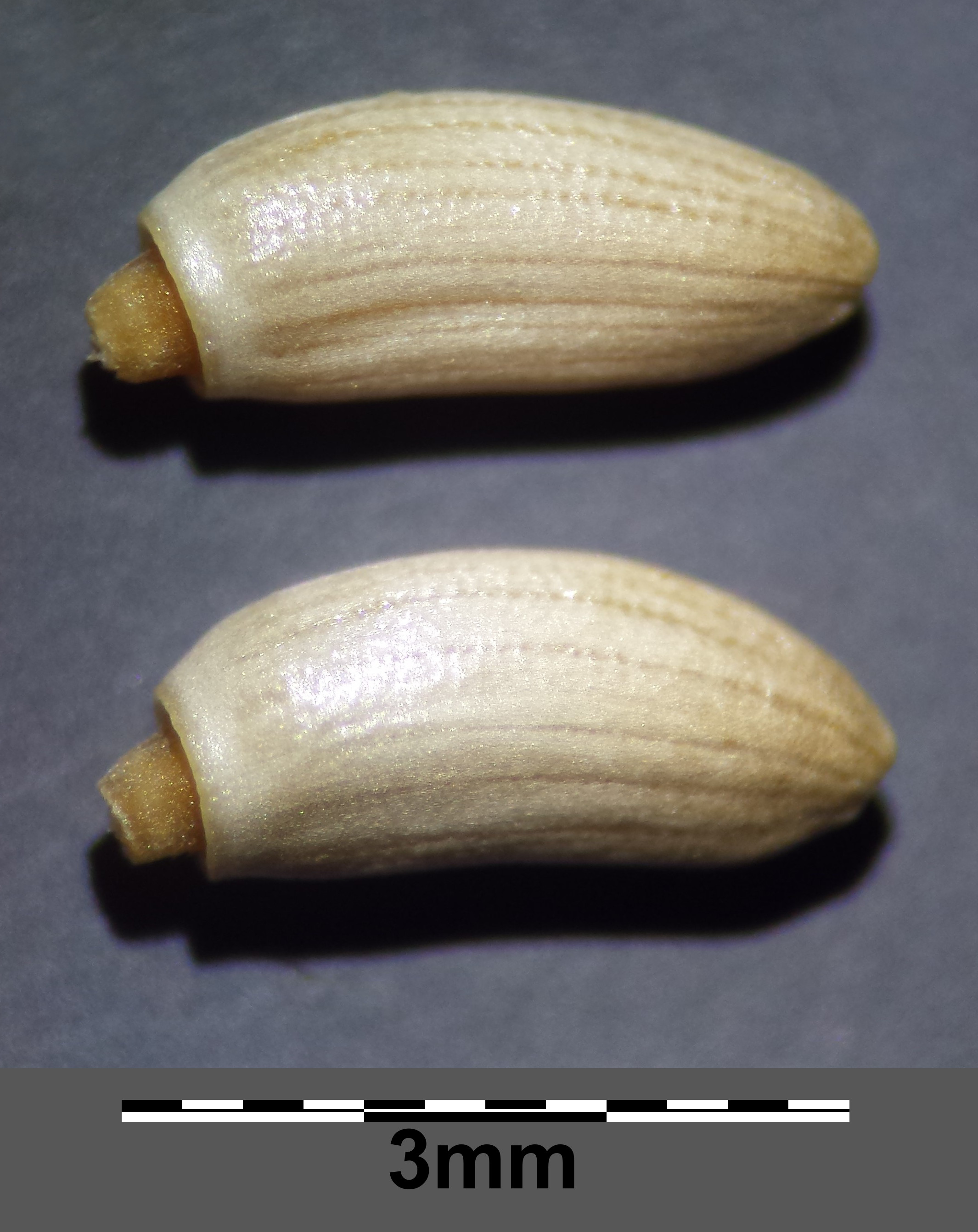 Fruits Taxonym: Carduus acanthoides ss Fischer et al. EfÖLS 2008 ISBN 978-3-85474-187-9 Location: Neue Donau, Vienna-Floridsdorf - ca. 160 m a.s.l. (leg.: 2015-07-06) Habitat: dry meadows